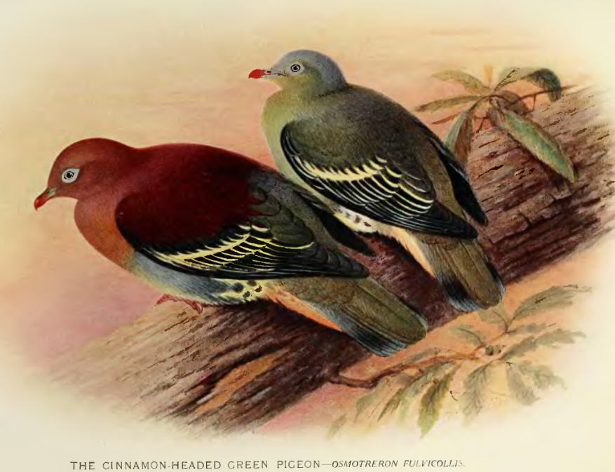 Treron fulvicollis